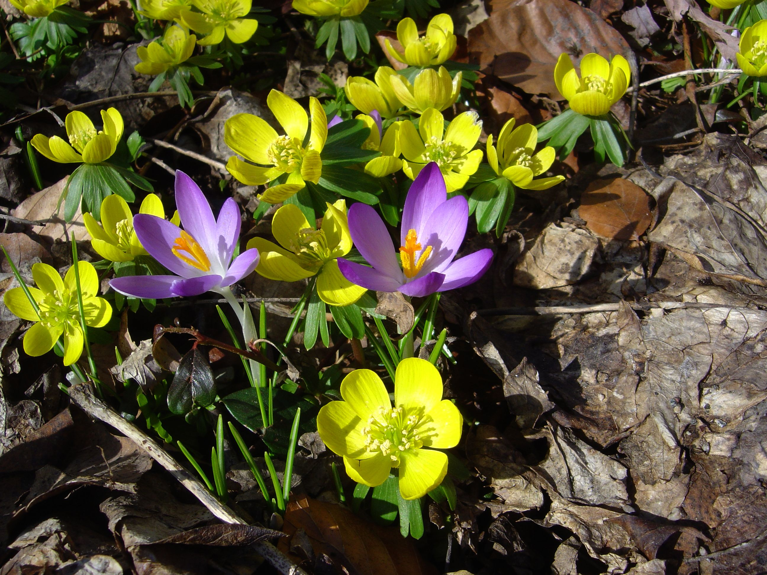 Author: Elisabeth Dauscher Eranthis hyemalis / Crocus Winterling / Krokus